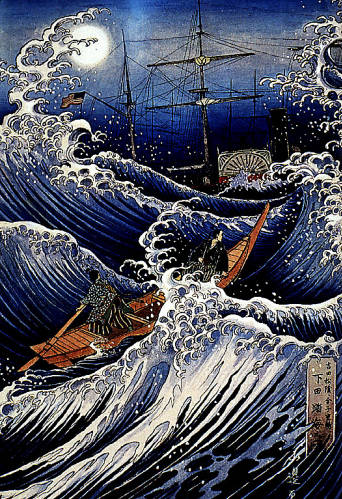 Yoshida Shoin rowing to Commodore Matthew Perry's Black Ships